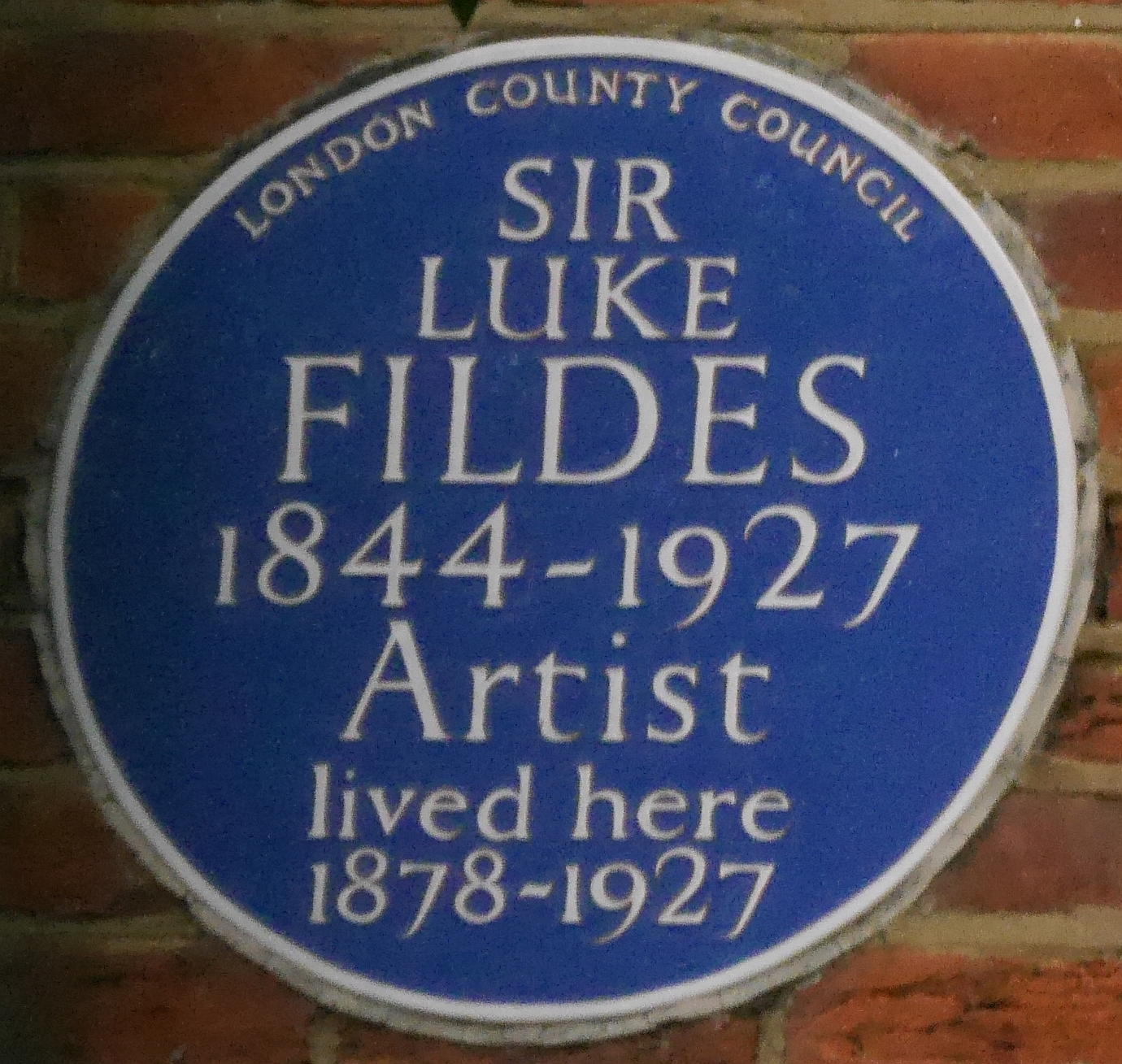 Woodland House Wikidata has entry Q17552440 with data related to this building.